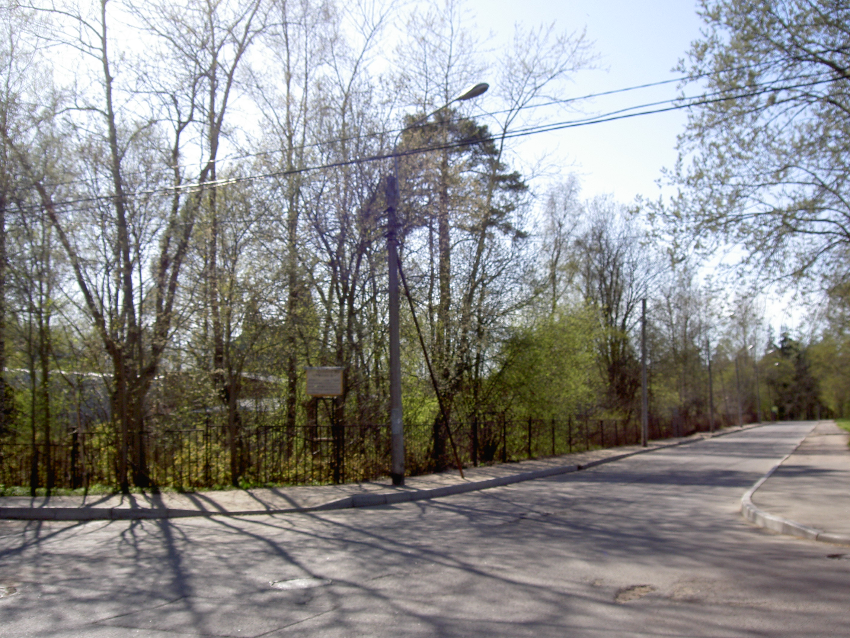 Shveytsarskaya street. View from Degtyareva street